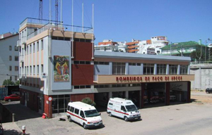 AHBVPA-Quartel04